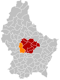 Map of the municiaplity Helperknapp, Luxembourg, result of a merger of the former municipalities of Boevange/Attert and Tuntange. The merger takes effect on 2018-01-01.